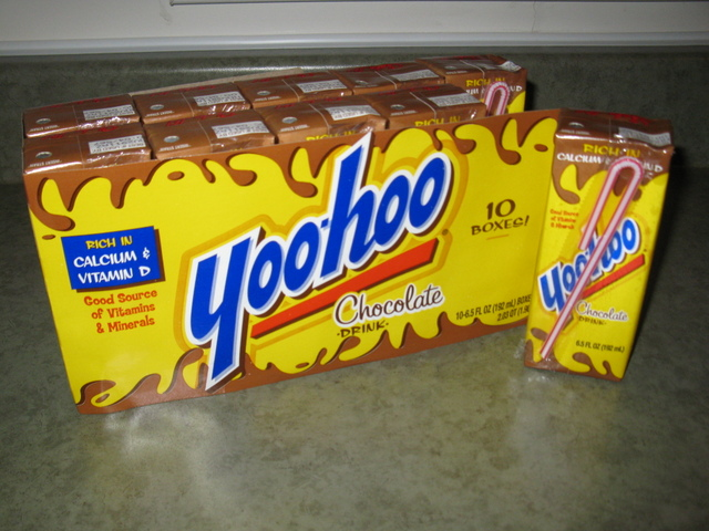 Yoo-hoo Chocolate Drink; Ten (10) 6.5 fl.oz. drink boxes, in package. Yoo-hoo is a brand owned by Dr Pepper Snapple Group Inc..